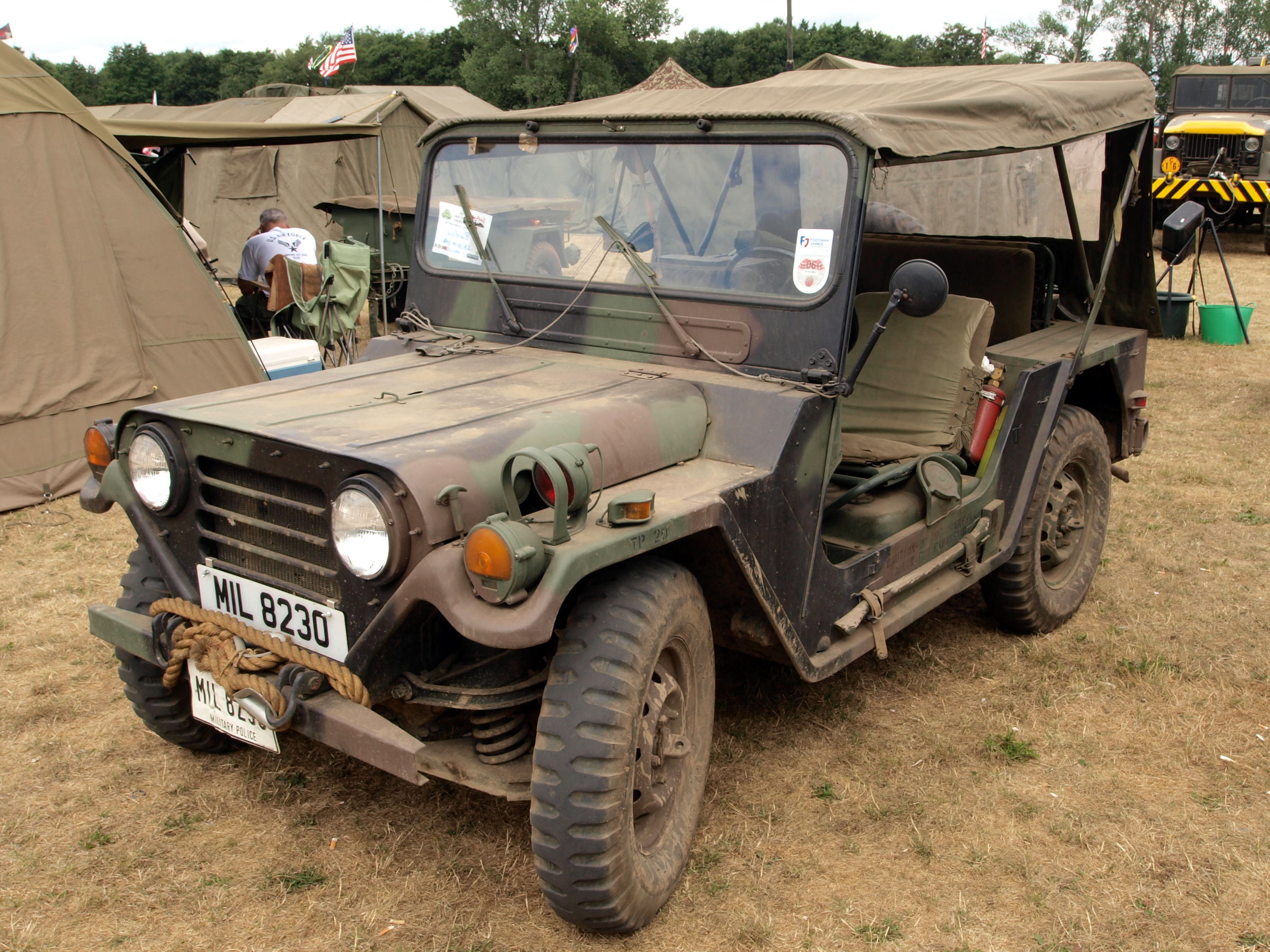 AMG M151 A2 (1978) GB (owner Gavin Broad) .